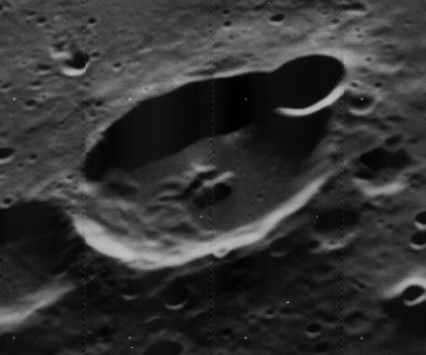 Oblique view of Borman, on the moon.